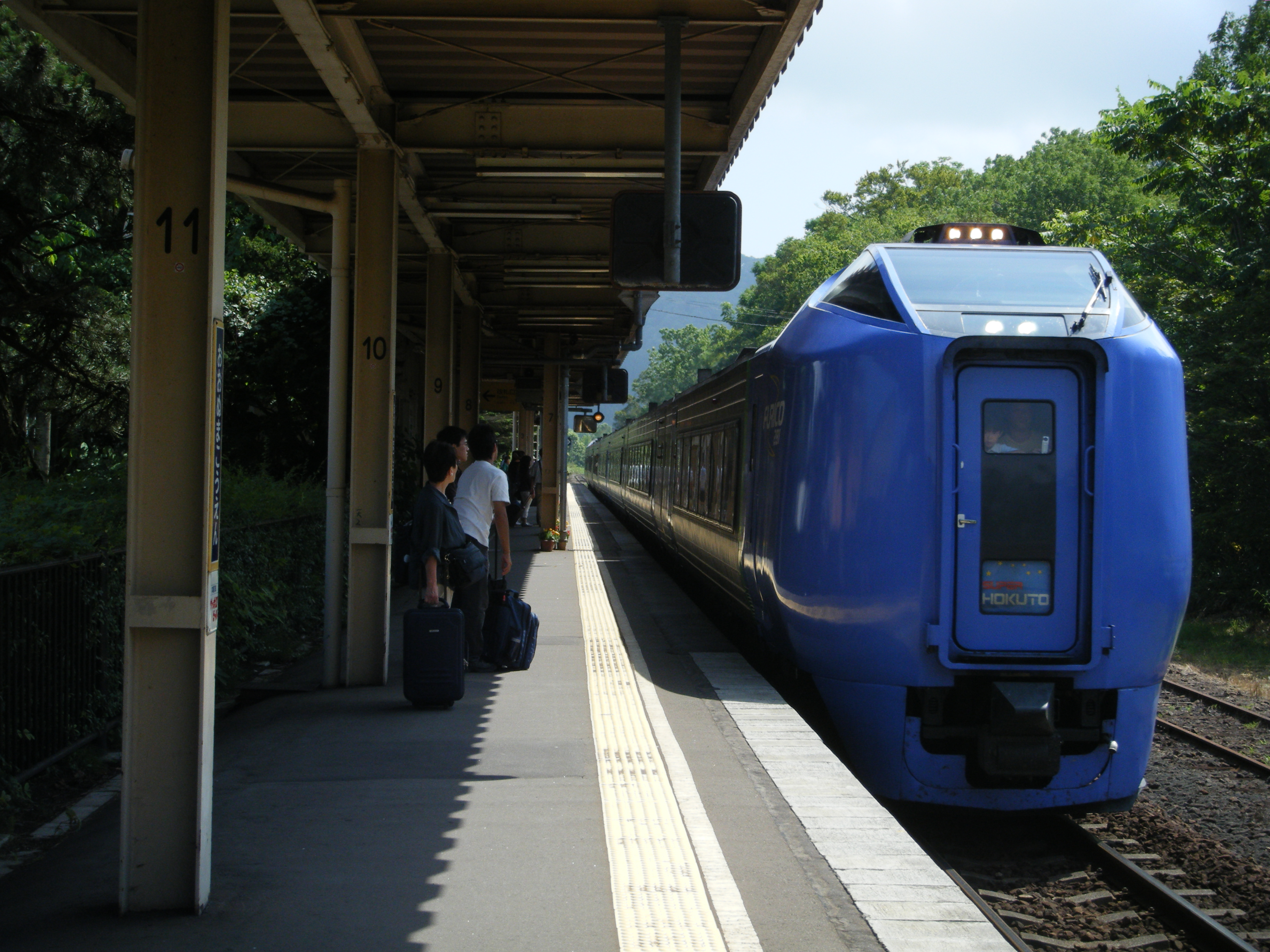 Limited express train Super Hokuto entering Onuma-Koen Station